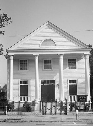 Old Bethel Methodist Church (Charleston, South Carolina) (cropped)